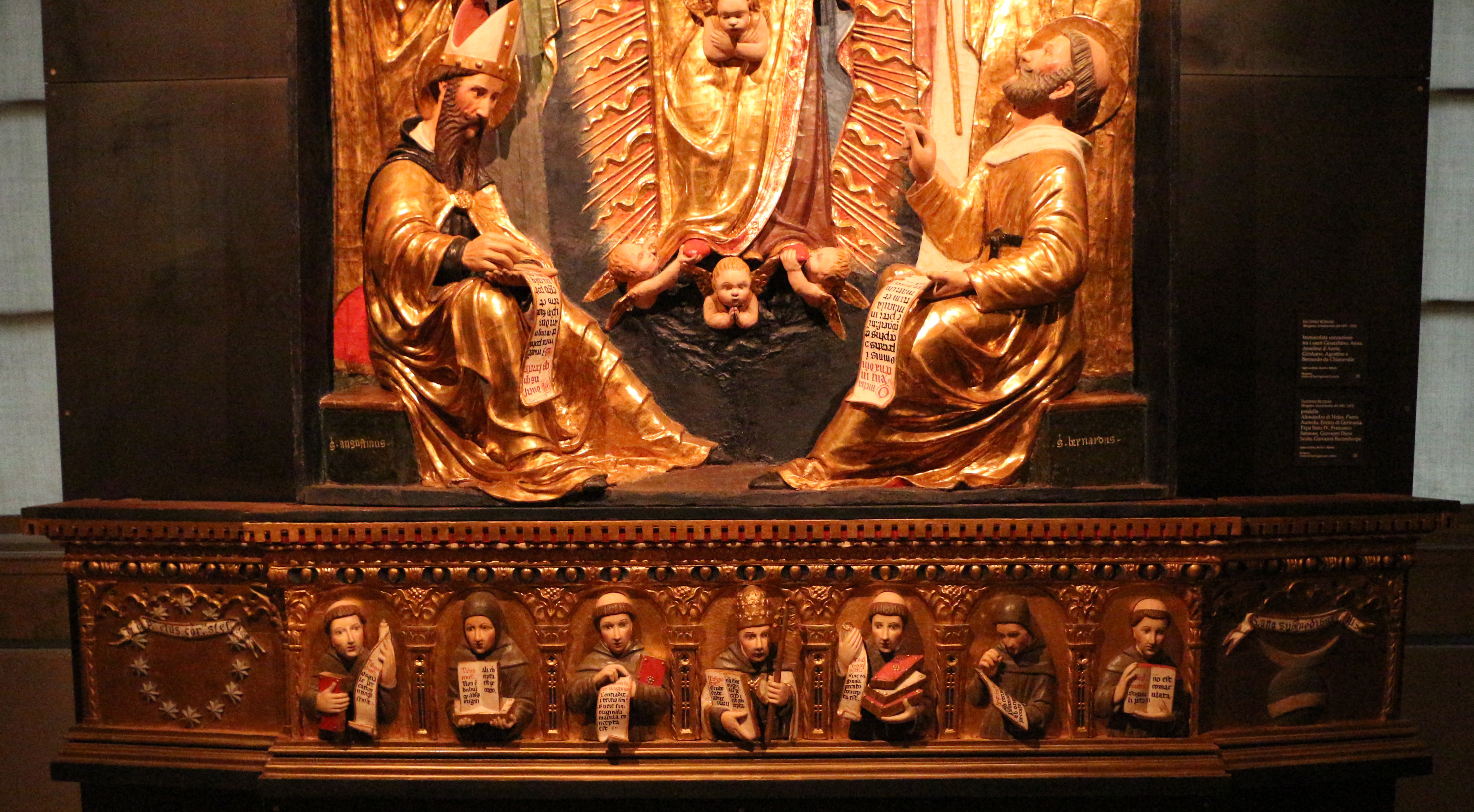 Museo Adriano Bernareggi